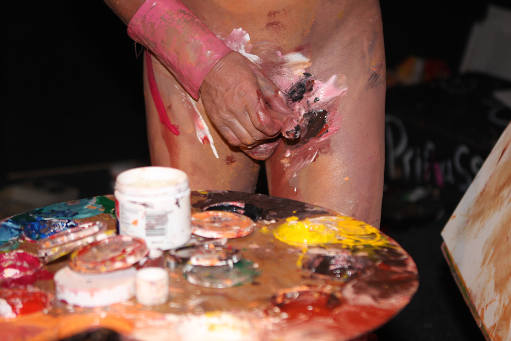 Pricasso at the 2012 Sexpo, held at Star City in Sydney.